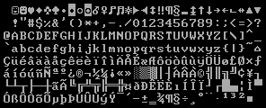 Full character set of code page 850, as should be displayed by VGA with 9×16 glyphs.